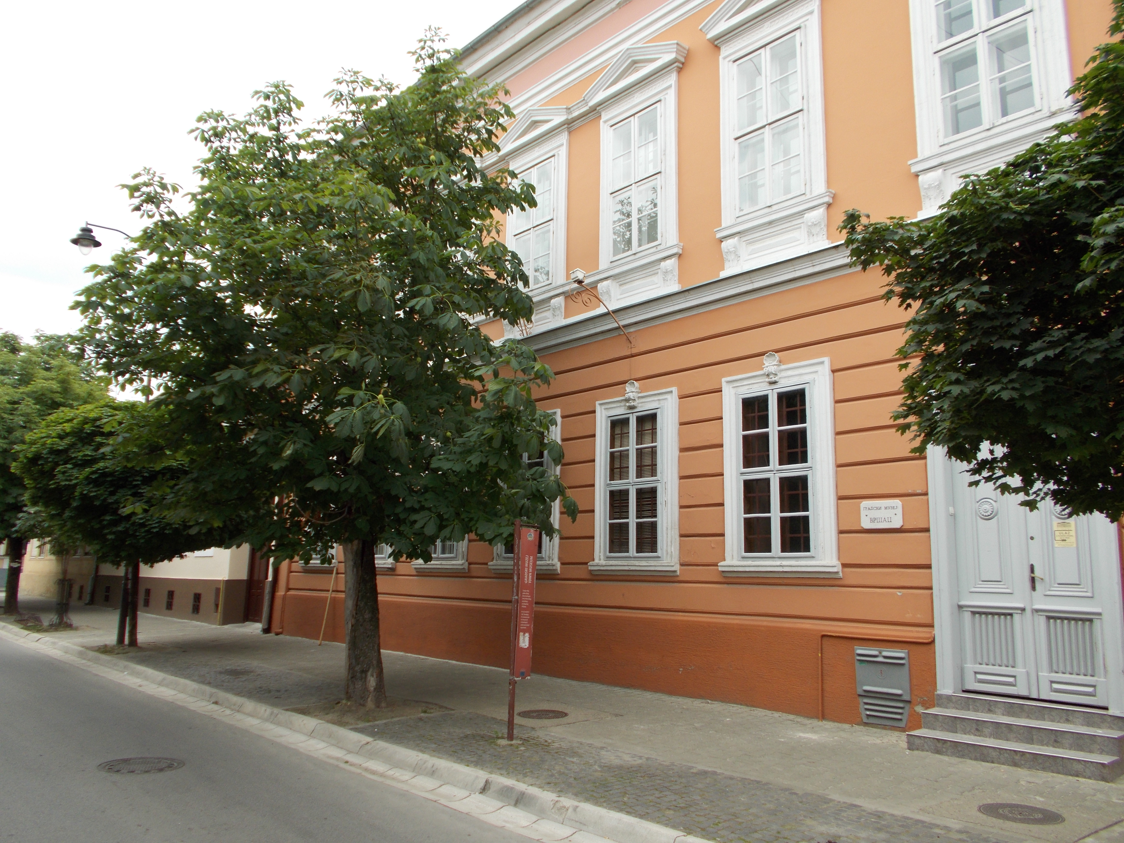 City Museum at Vrshac.